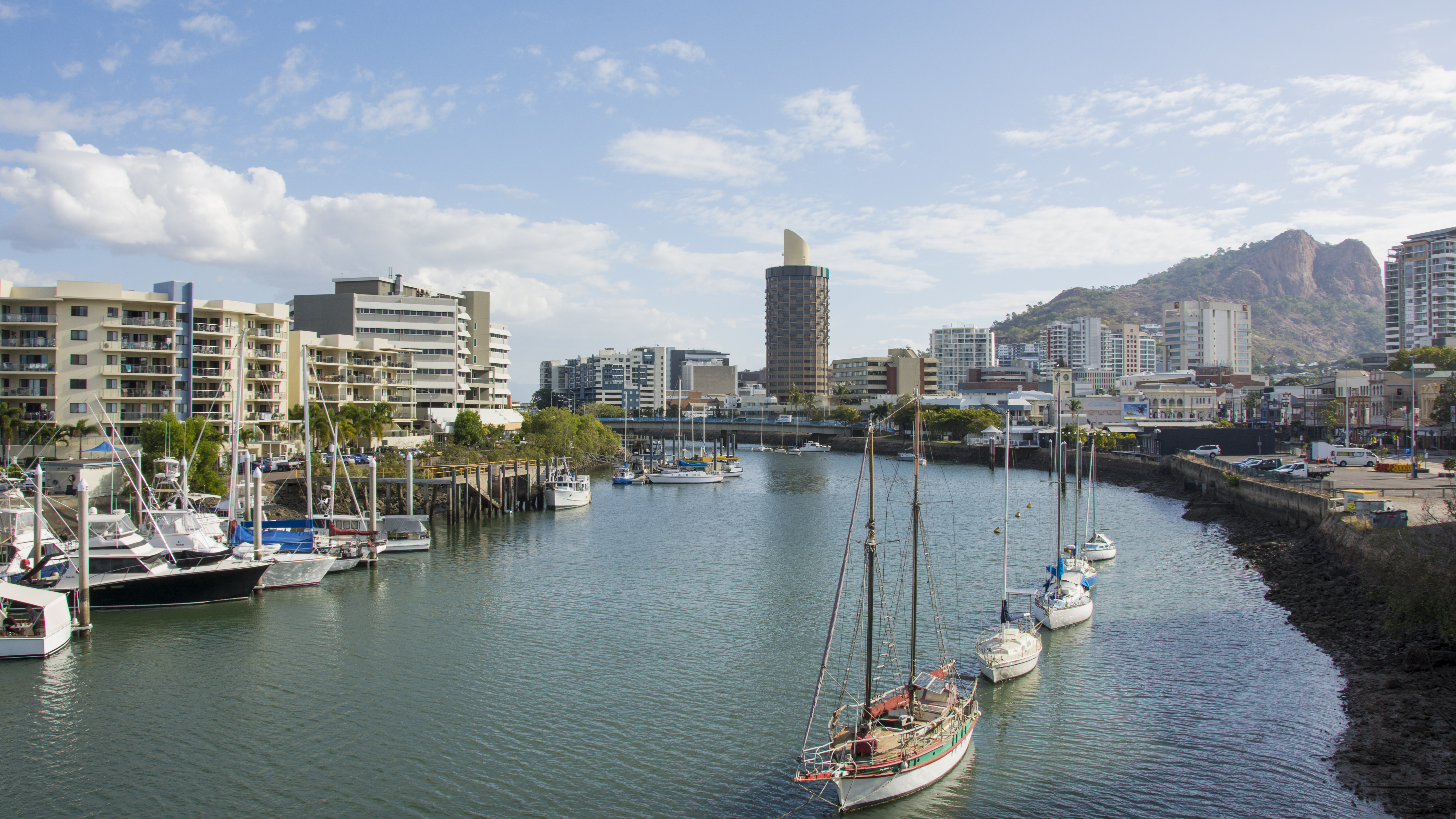 Ross river creek, sugar shaker, Flinders street, Castle hill